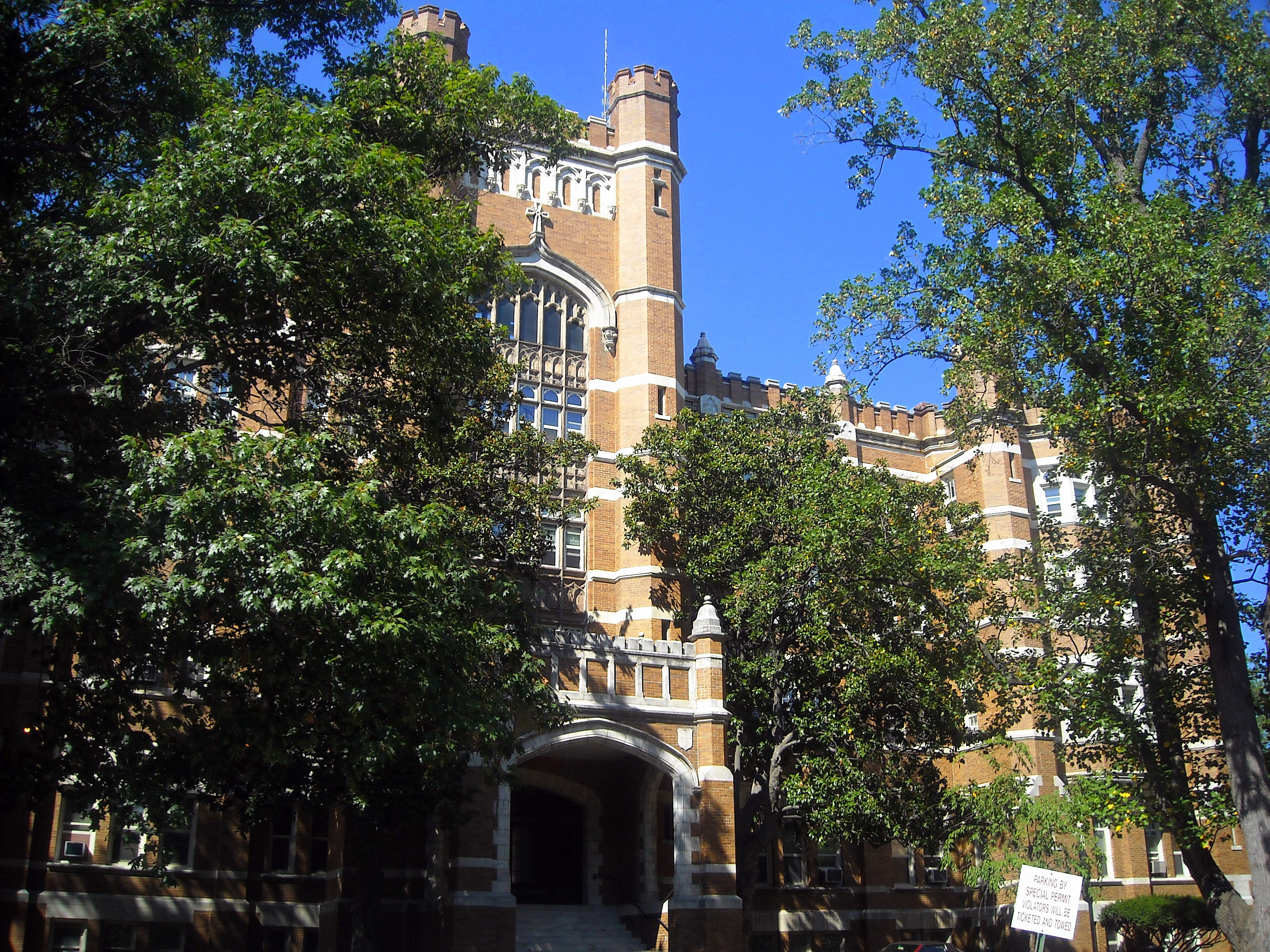 Howard University School of Law located at 2900 Van Ness Street, N.W., in the Forest Hills neighborhood of Washington, D.C.